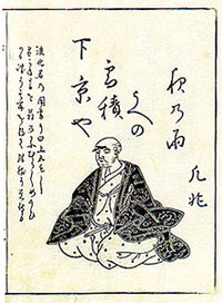 Nozawa Bonchō (1640 — 1714). (野沢 凡兆) Japanese haikai poet. He was born in Kanazawa, and spent most of his life in Kyoto working as a doctor. Bonchō was one of Matsuo Bashō's leading disciples and, together with Mukai Kyorai, he edited the Bashō school's Monkey's Raincoat (Sarumino) anthology of 1689.[1] He participated in numerous renku with Bashō and other members of his Shōmon school.